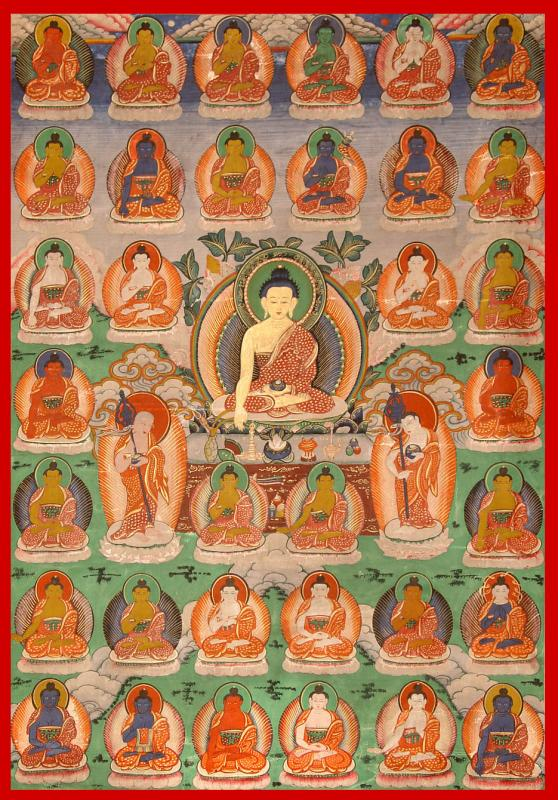 The 35 Buddhas are known from the Sutra of the Three Heaps (Sanskrit: Triskandhadharmasutra), popular in Tibetan Buddhism.